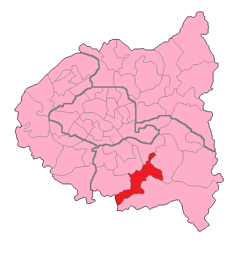 Map of Val-de-Marne's 2nd constituency shown within Ile-de-France (Petite Couronne)